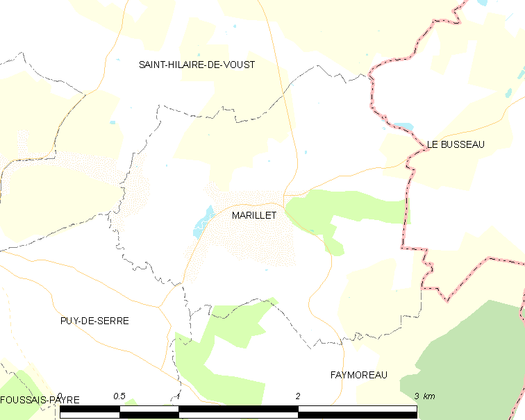 Map of French municipality Marillet